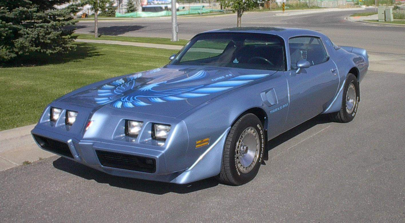 A photo of my car I took myself